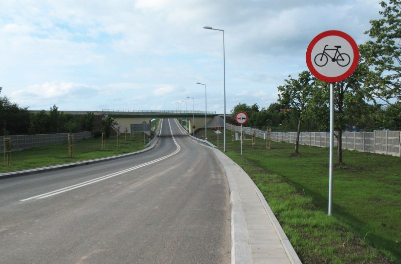 Elk, baypass road (part of road No. DK16)